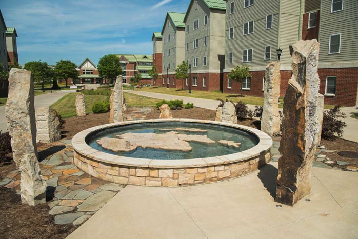 Highlands